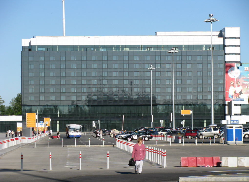 Angelo Airporthotel Ekaterinburg